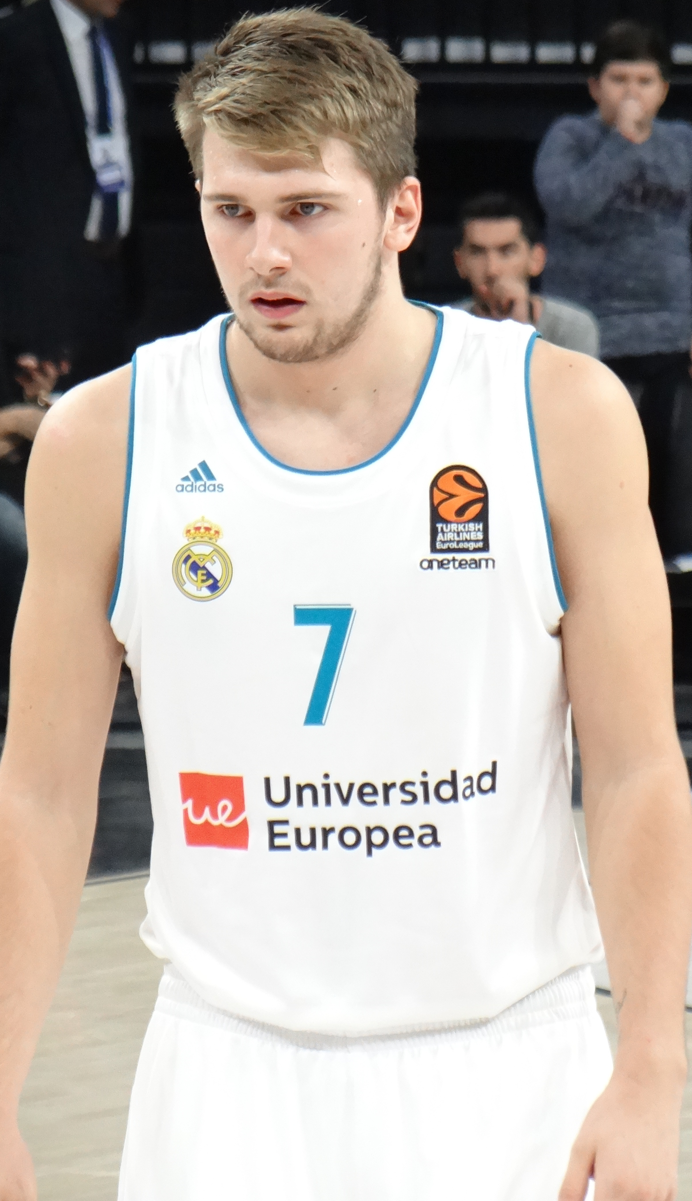 Luka Dončić 7 Real Madrid Baloncesto Euroleague 20171012